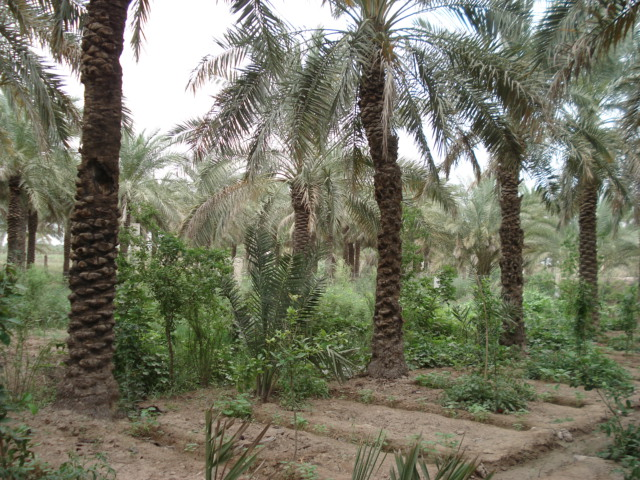 Date palm orchard, Al-Faw, Basrah, Iraq